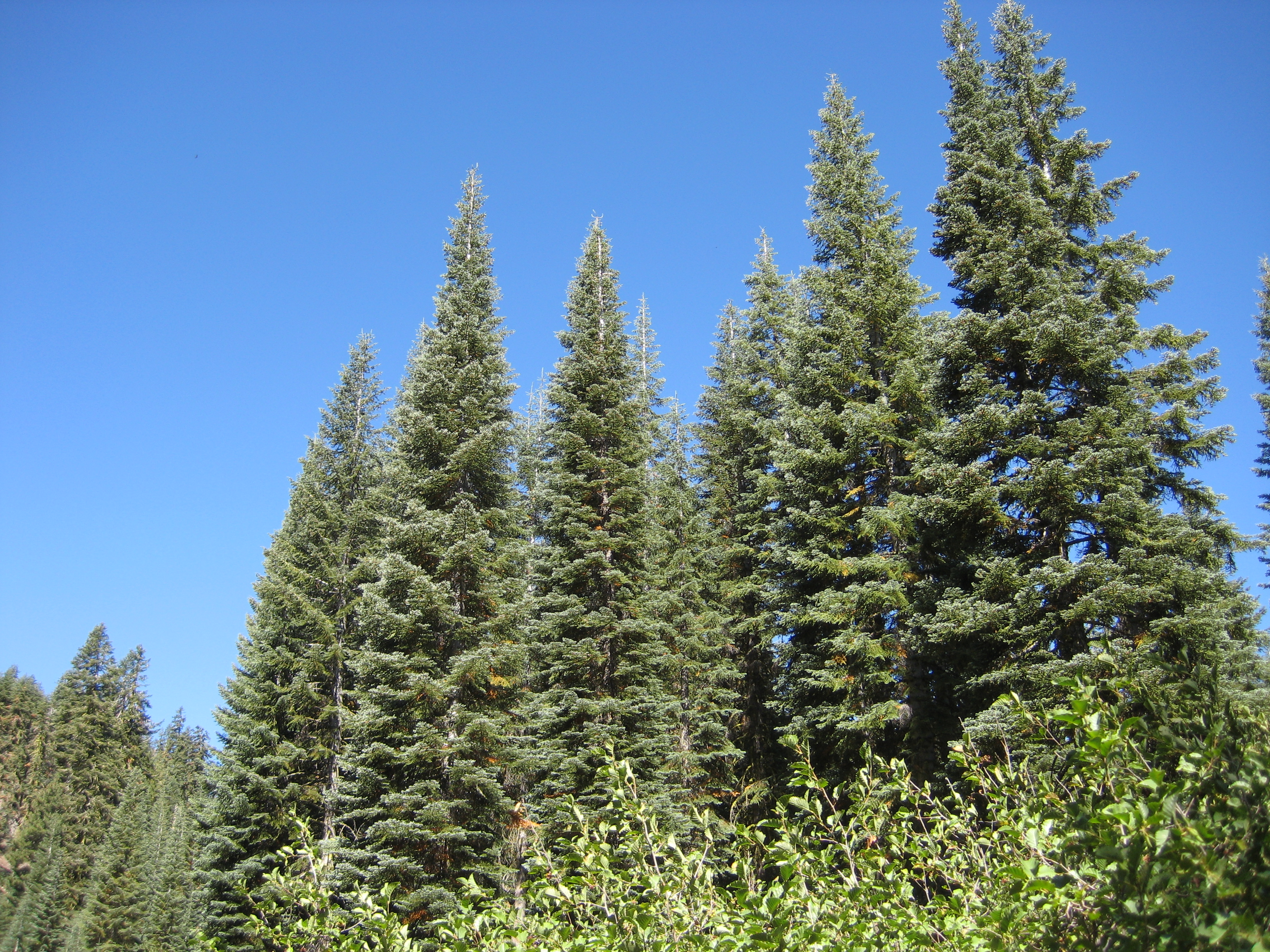 Abies magnifica trees — Lassen Volcanic National Park, California